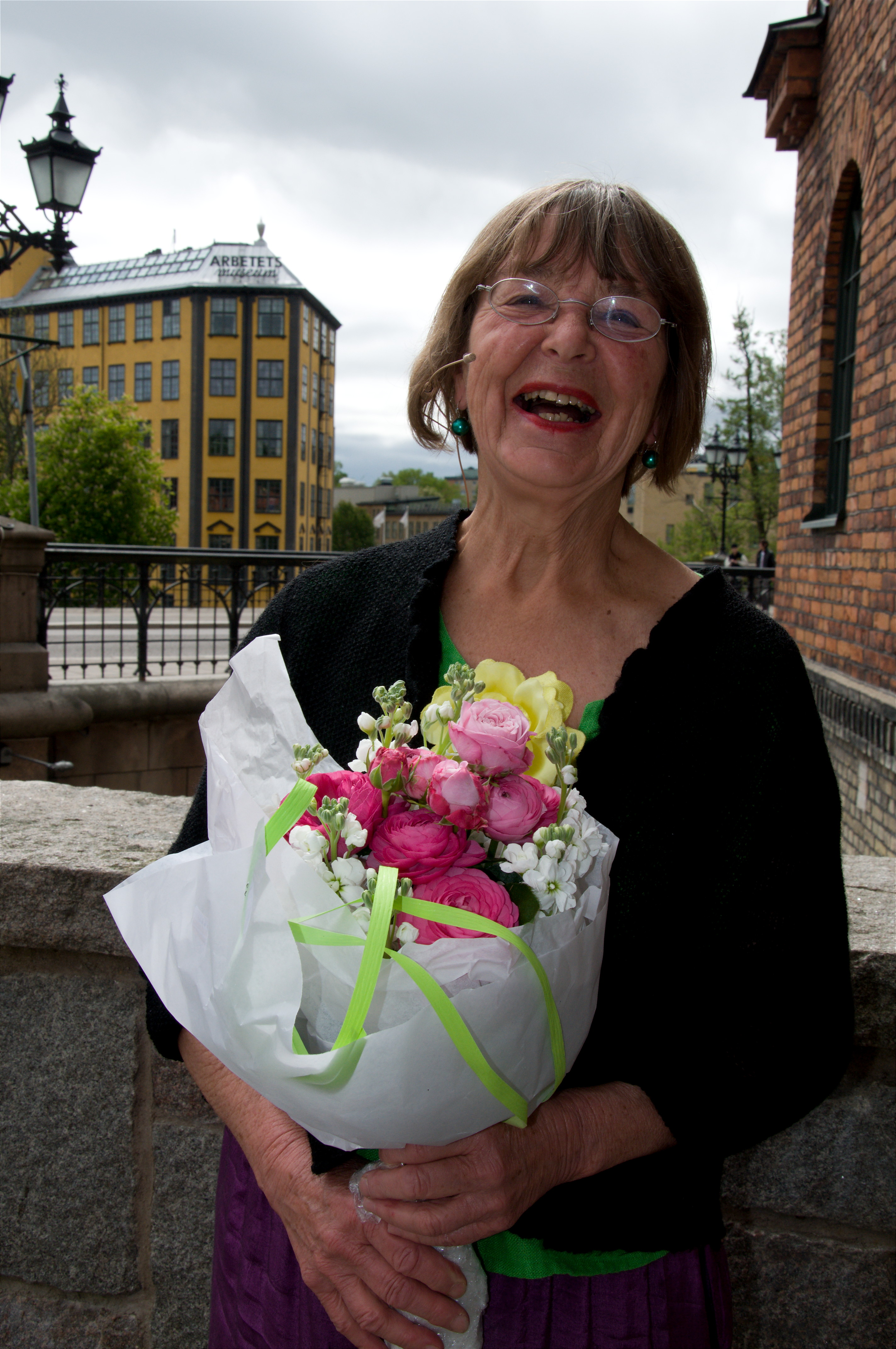 Eva Persson vid promoveringen till hedersdoktor vid LiU, fotograferad i Norrköping med den tidigare arbetsplatsen Arbetets museum i bakgrunden.